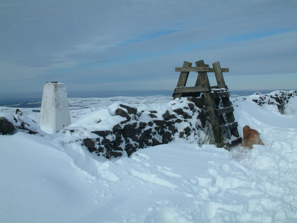 The trig point and ladder stile at the summit of Shining Tor. Photograph by Stephen Dawson, 20 November 2004. category:Snow category:Trig points category:Shining Tor